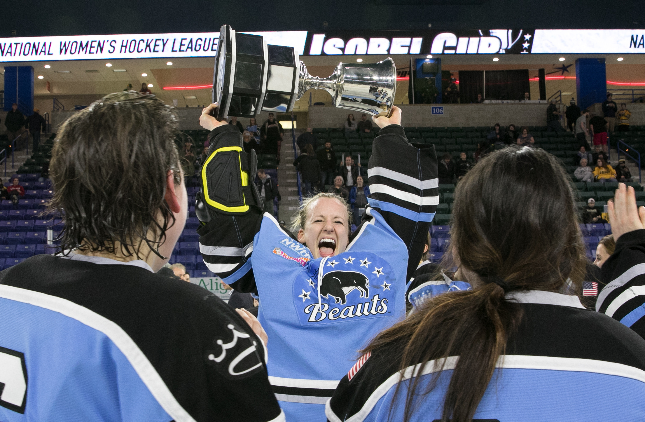 Brianne McLaughlin of the Buffalo Beauts lifts the 2017 Isobel Cup